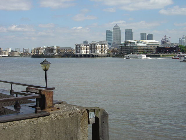 The view from New Crane Stairs Looking across to Rotherhithe with Canary Wharf in the distance.